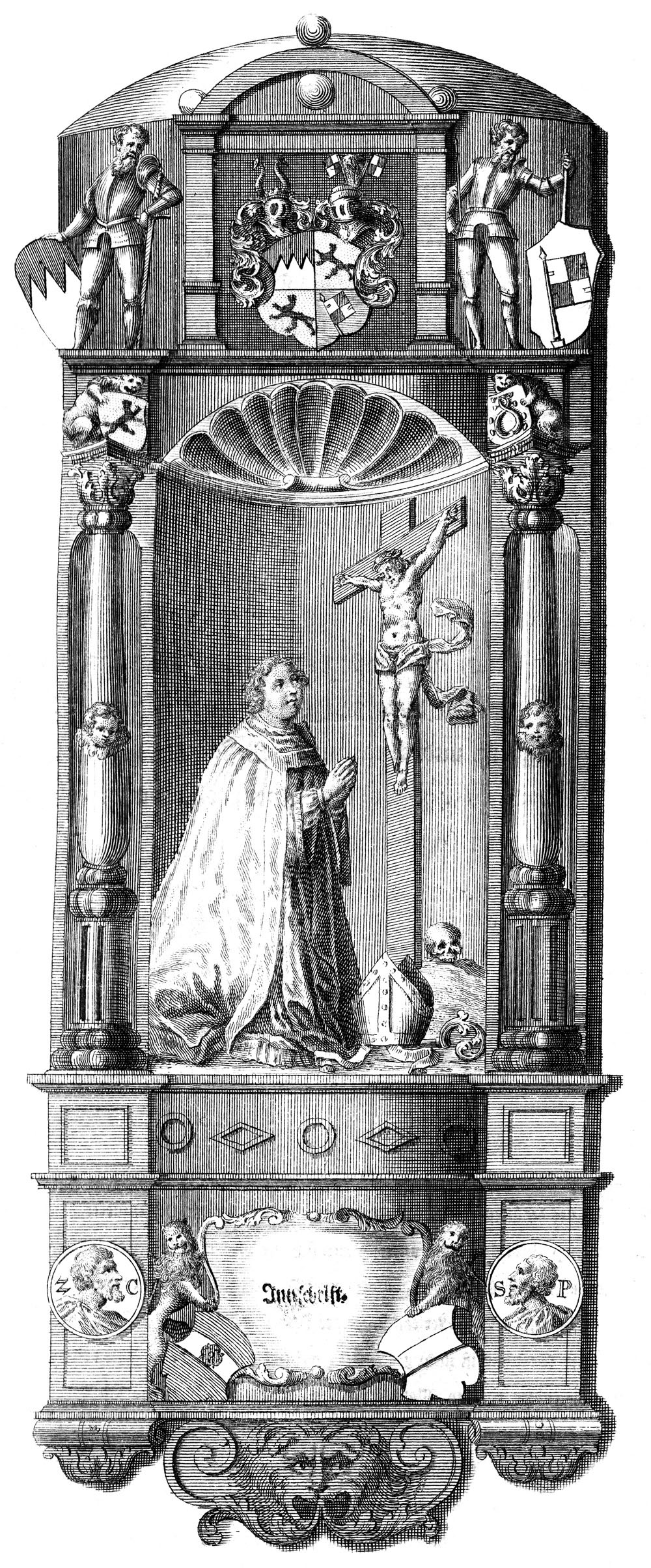 Johann Octavian Salver, Proben des hohen Teütschen Reichs Adels oder Sammlungen alter Denkmäler, Grabsteine, Wappen, Inn-und Urschriften, u. d. Nach ihren wahren Urbilde aufgenommen, unter offener Treüe bewähret, und durch Ahnenbäume auch sonstige Nachricten erkläret und erläutert (Würzburg, 1775)